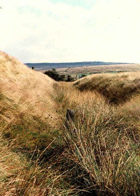 Ditch, Castleshaw Roman Fort Part of the ditch which surrounded the Roman Fort at Castleshaw, Greater Manchester, England.